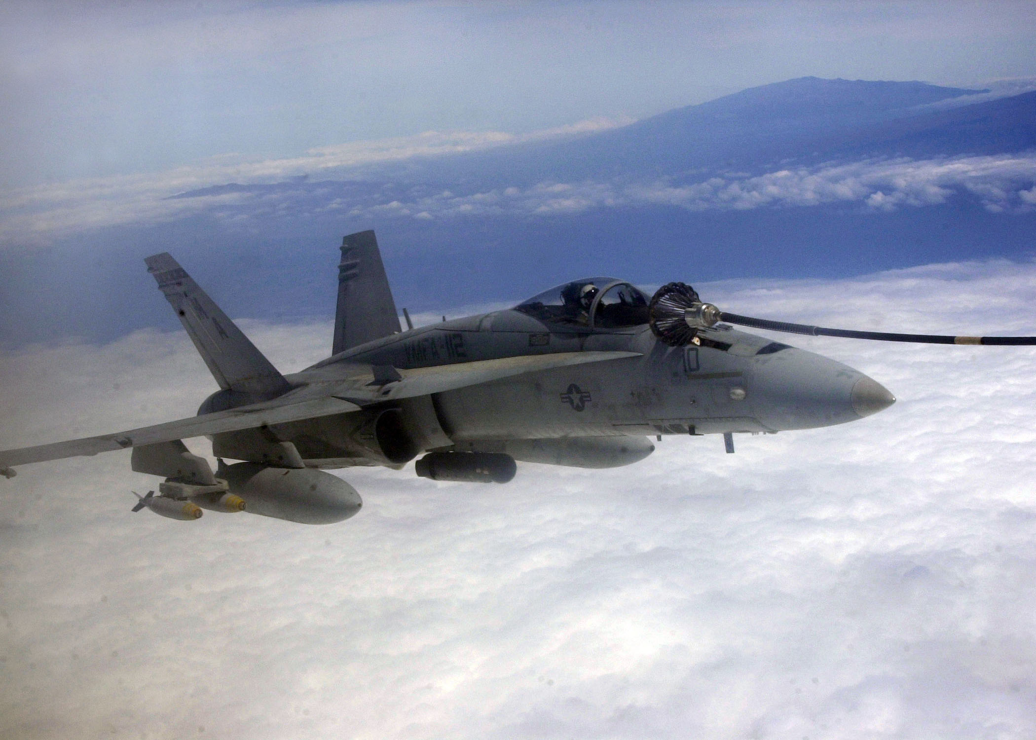 MARINE CORPS BASE HAWAII, KANEOHE BAY (Jan. 16, 2006) -- The beautiful mountains of Hawaii lie in the background as Col. Juergen 'Baron' Lukas, commanding officer, Marine Aircraft Group 41 refuels his F/A-18A+ Hornet off the back of a KC-130T Hercules with Marine Aerial Refueler Squadron 234 during a Hawaii Combined Arms Exercise Jan. 16. During the exercise, Marine Fighter Attack Squadron 112 is equipped with the Litening pod, seen mounted to the rear. Litening is a precision targeting system which amplifies the pilot's ability to accurately deliver live ordnance to ground targets. Based out of the Naval Air Station-Joint Reserve Base Fort Worth, Texas, MAG-41 will be providing transport, refueling, and close air support for 3rd Battalion, 3rd Marine Regiment, who is training for deployment to Iraq. (U.S. Marine Corps photo by Sgt. Joel A. Chaverri)